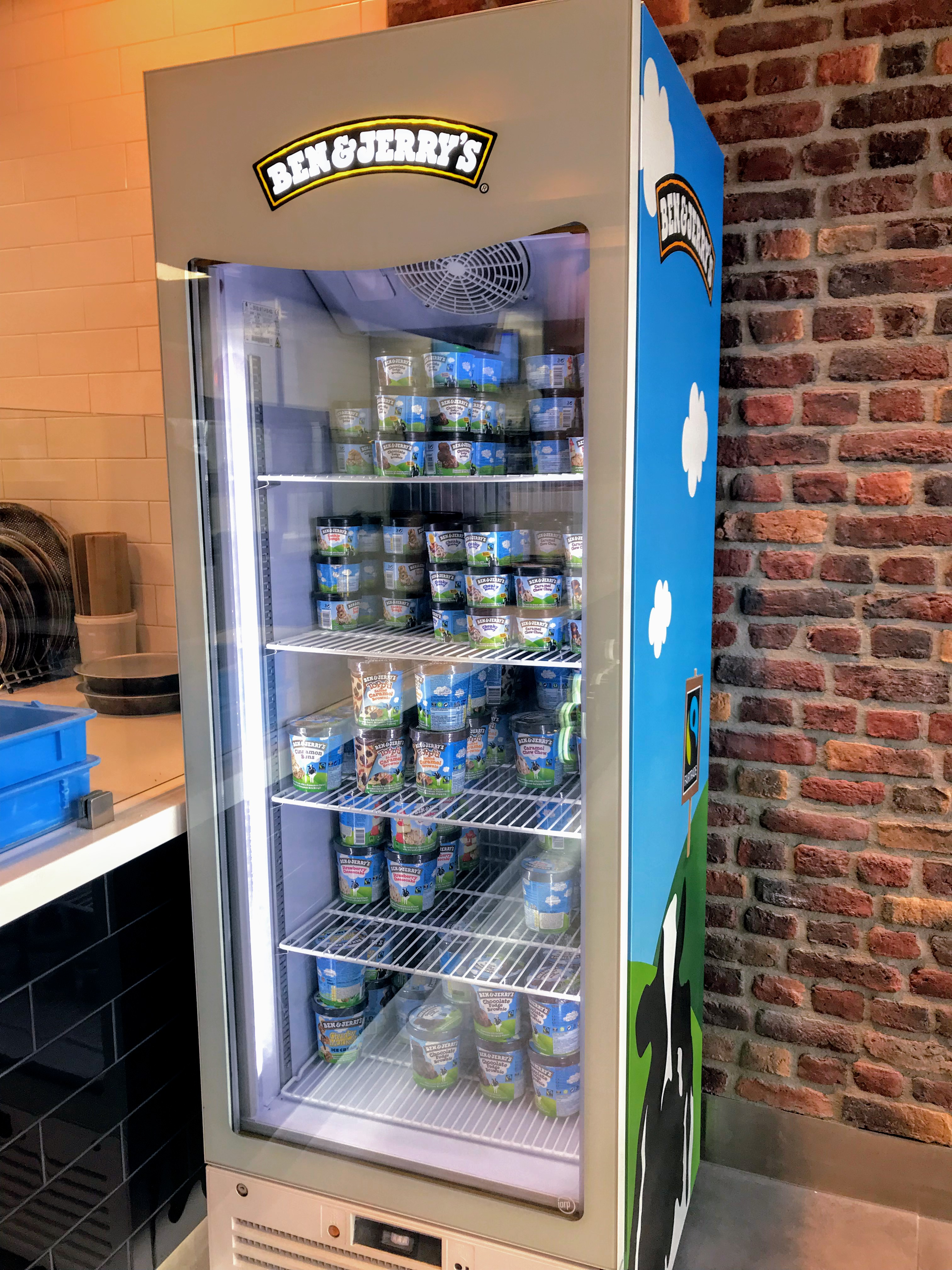 Ben Jerry's display freezer at Dominos